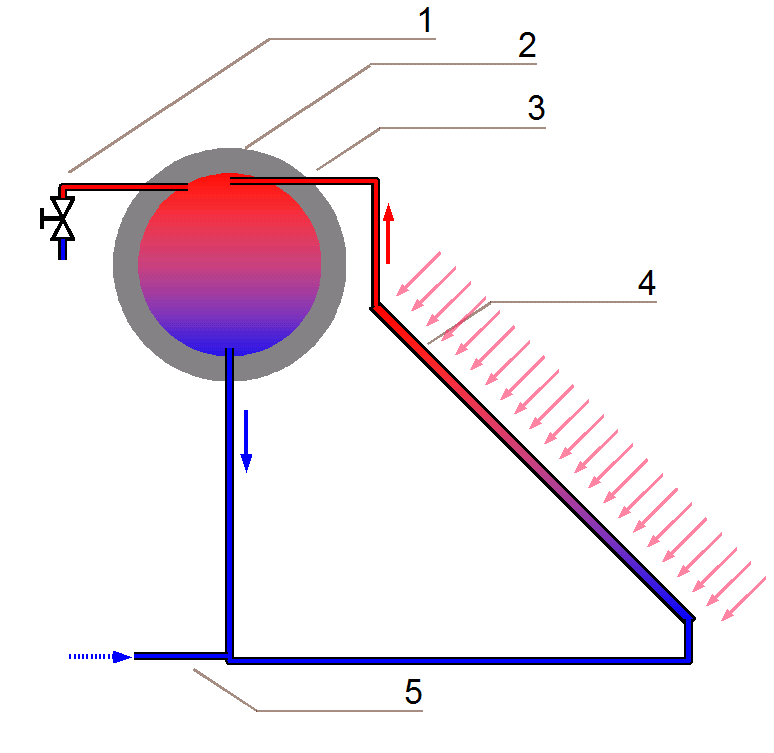 Description: Thermosiphon 1: water tap 2: insulated container 3: warm water inlet 4: solar thermal collector 5: fresh water supply Author: User:Rainer Bielefeld Other versions: Image:Thermosiphon2.png (improved version), Image:Thermal-solar.svg (SVG Alternative)